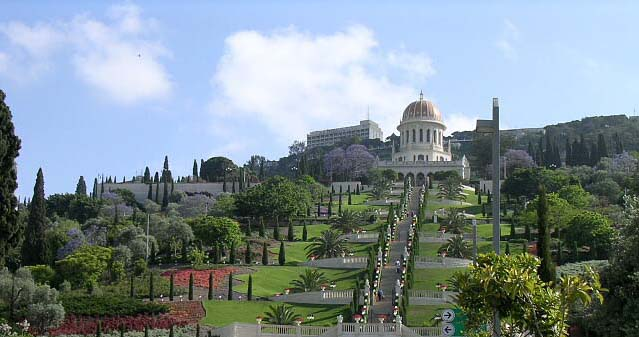 Shrine of the Báb